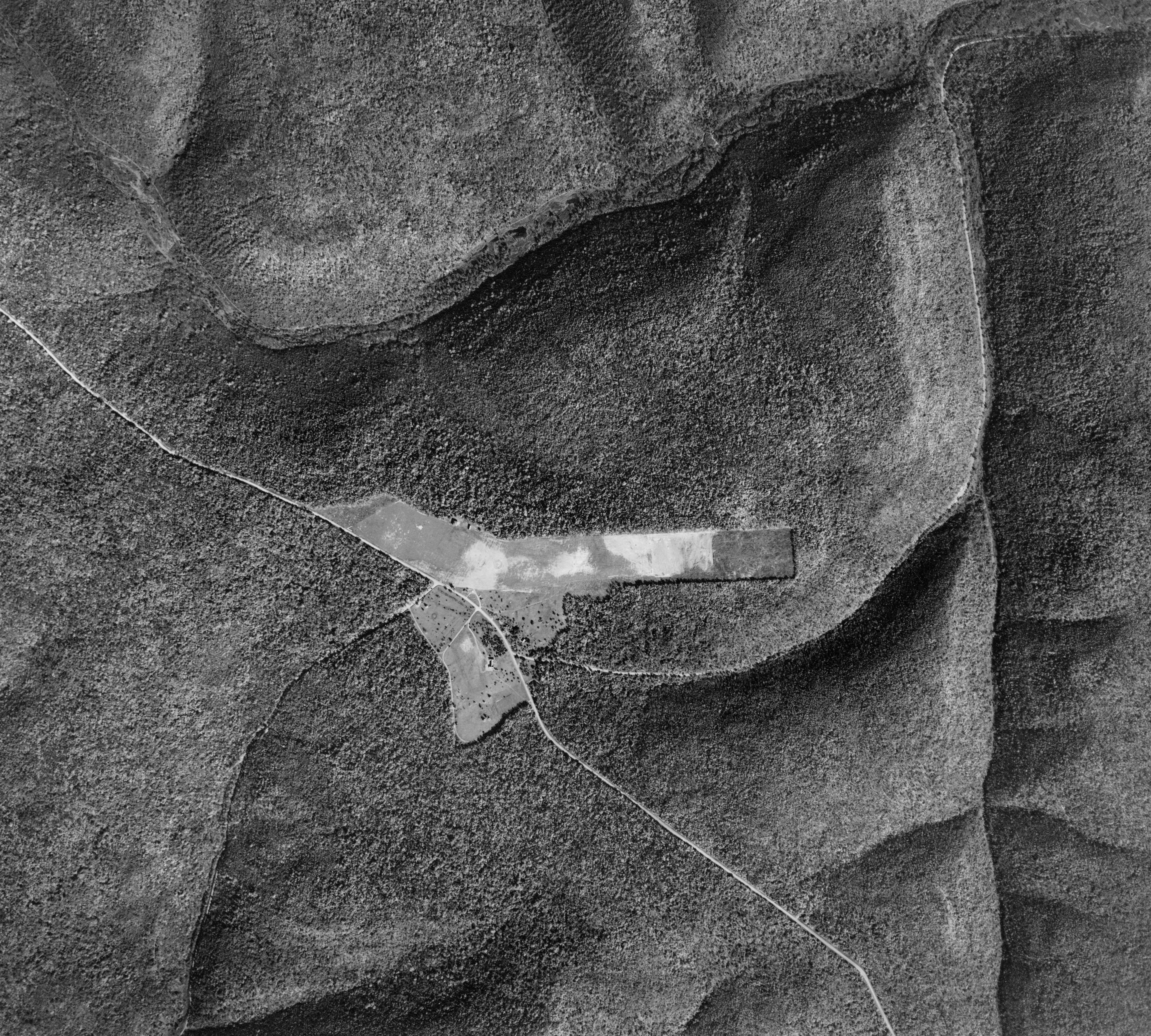 Cropped aerial photo of Cherry Springs State Park and adjoining airport in West Branch Township, Potter County, Pennsylvania in the United States. Pennsylvania Route 44 (the Coudersport-Jersey Shore Turnpike) is the highway crossing diagonally from upper left to bottom right. North is up. West Branch Pine Creek is in the valley north of the park, and Hopper House Run is in the valley to the east.